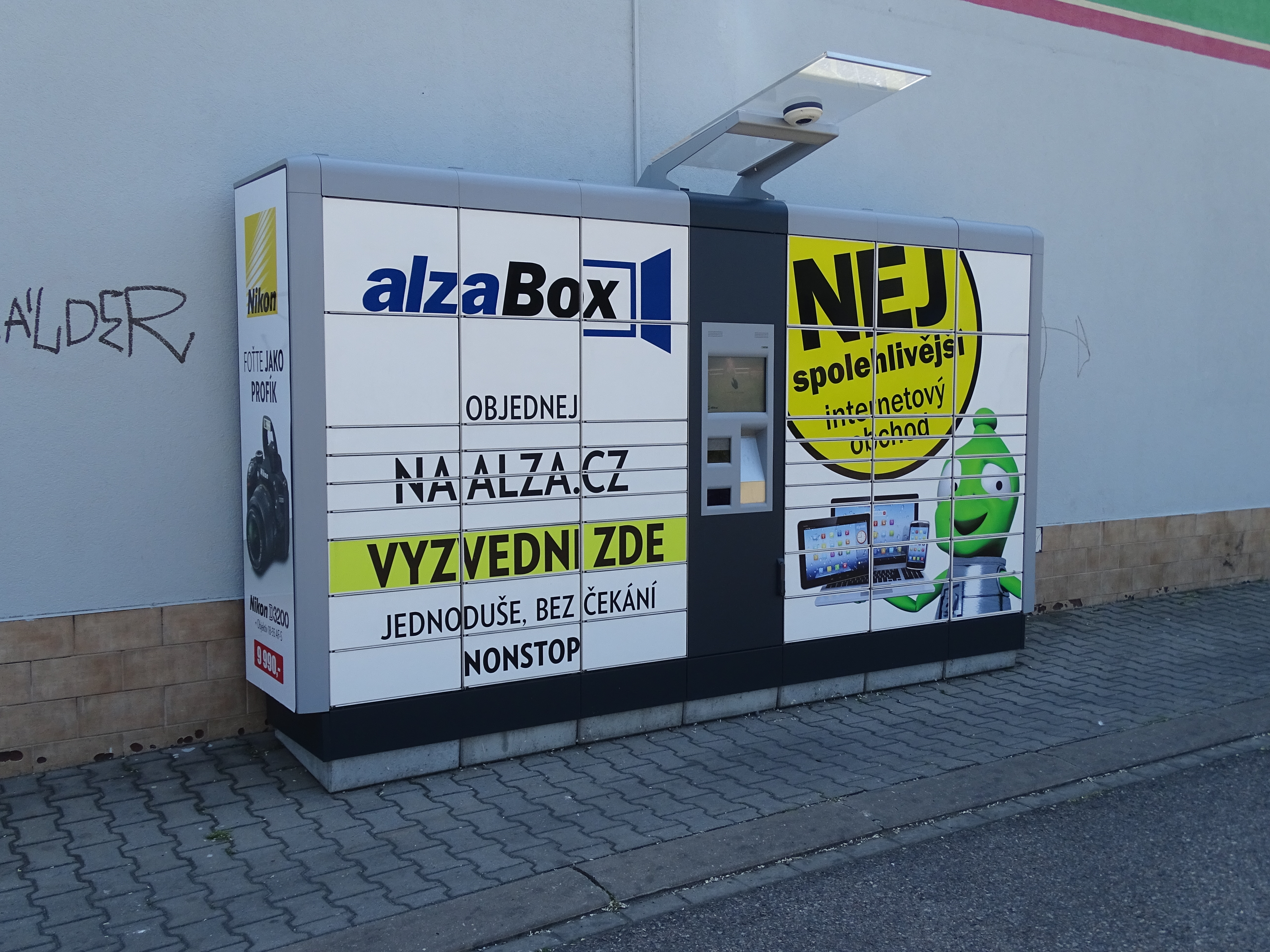 Prague-Hostivař, Czech Republic. Švehlova street, AlzaBox.